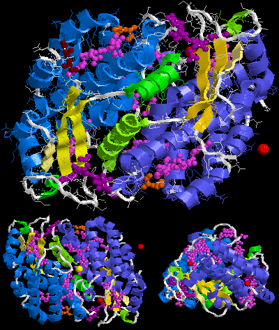 Crystal structure of Phycoerythrin 545 from Rhodomonas CS24 (PDB ID: 1XG0). This image was created with RasTop (Molecular Visualization Software) and Adobe Photoshop Elements.